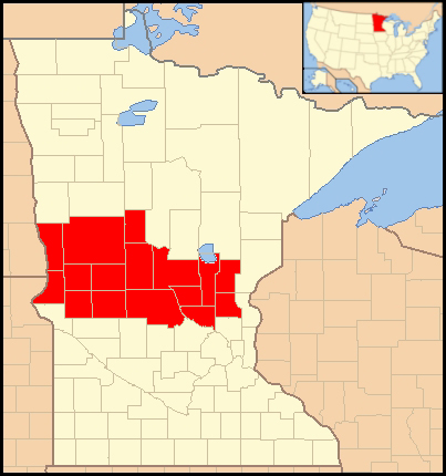 Map of the Catholic diocese of Saint Cloud in the USA.